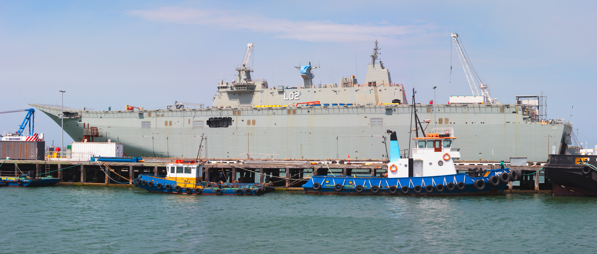 HMAS Canberra being fitted out in Williamstown, Melbourne.